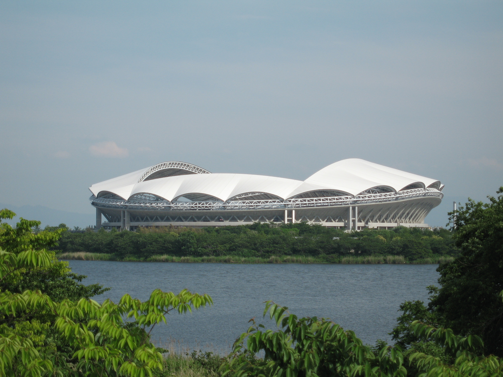 Taking a picture from Tyanogata park.